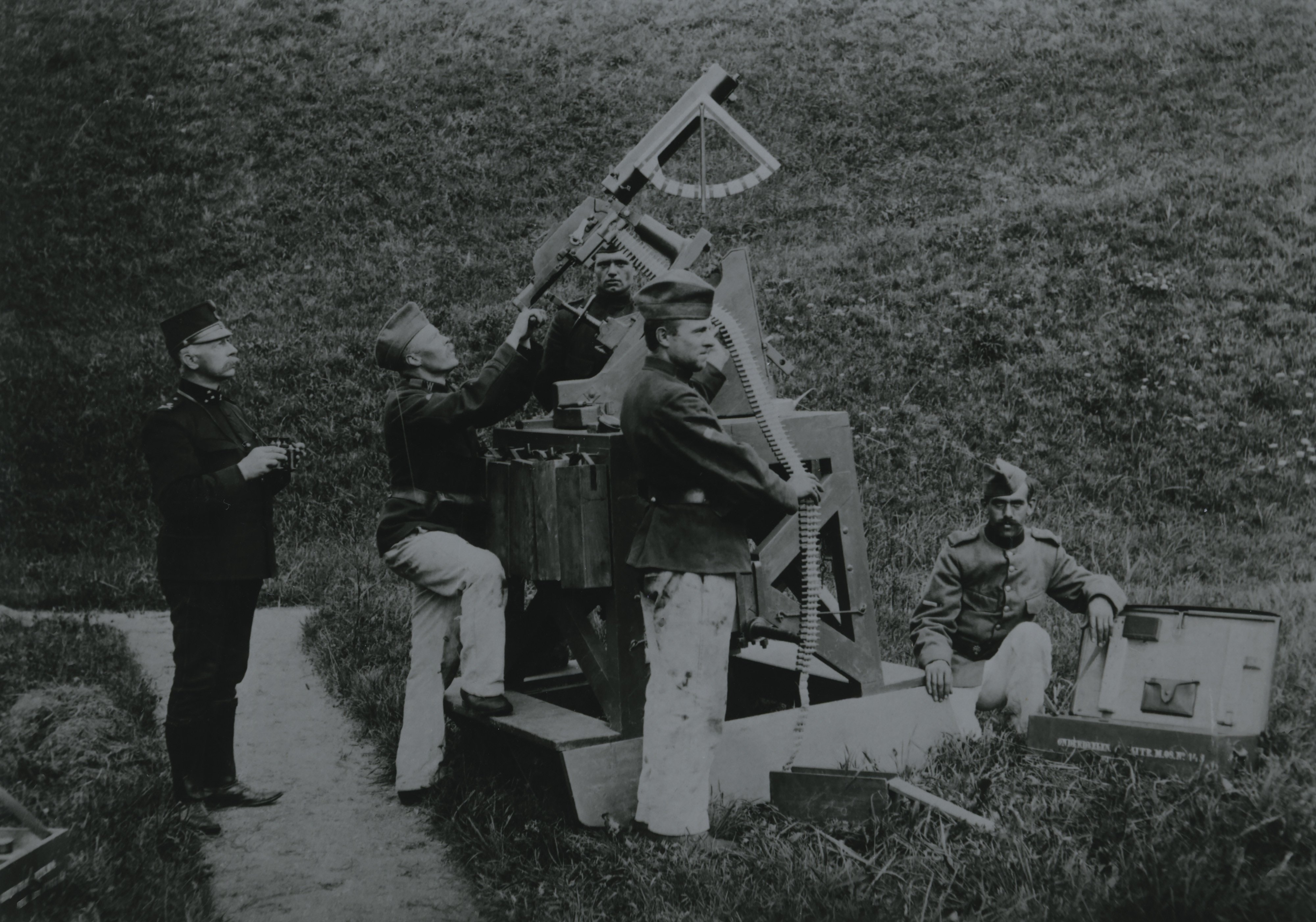 A wooden gun carriage for the Schwarzlose M.08-machine gun with an iron wire sight, used against air targets. Developed by two Dutch anti aircraft artillery pioneers, the luitenants A.J. Maas en G. Simons. The carrriage has been developed in 1915 for the defence of the Stelling van het Hollands Diep and the Volkerak. Maas also developped the aiming rules for the piece. It is one of the earlies examples of an anti aircraft gun.